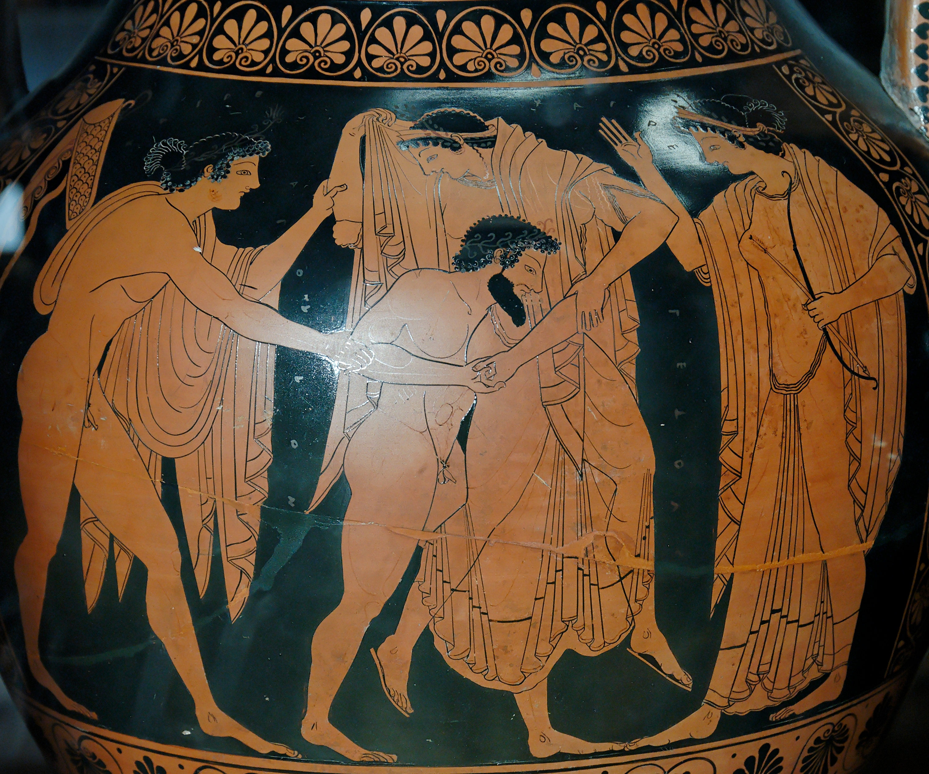 The rape of Leto by Tityos: Apollo (on the left), his bow and quiver hanging behind him, tries to stop Tityos while Artemis, holding a bow and a arrow, motions him to stop. Side A from an Attic red-figure amphora, ca. 515 BC. From Vulci.